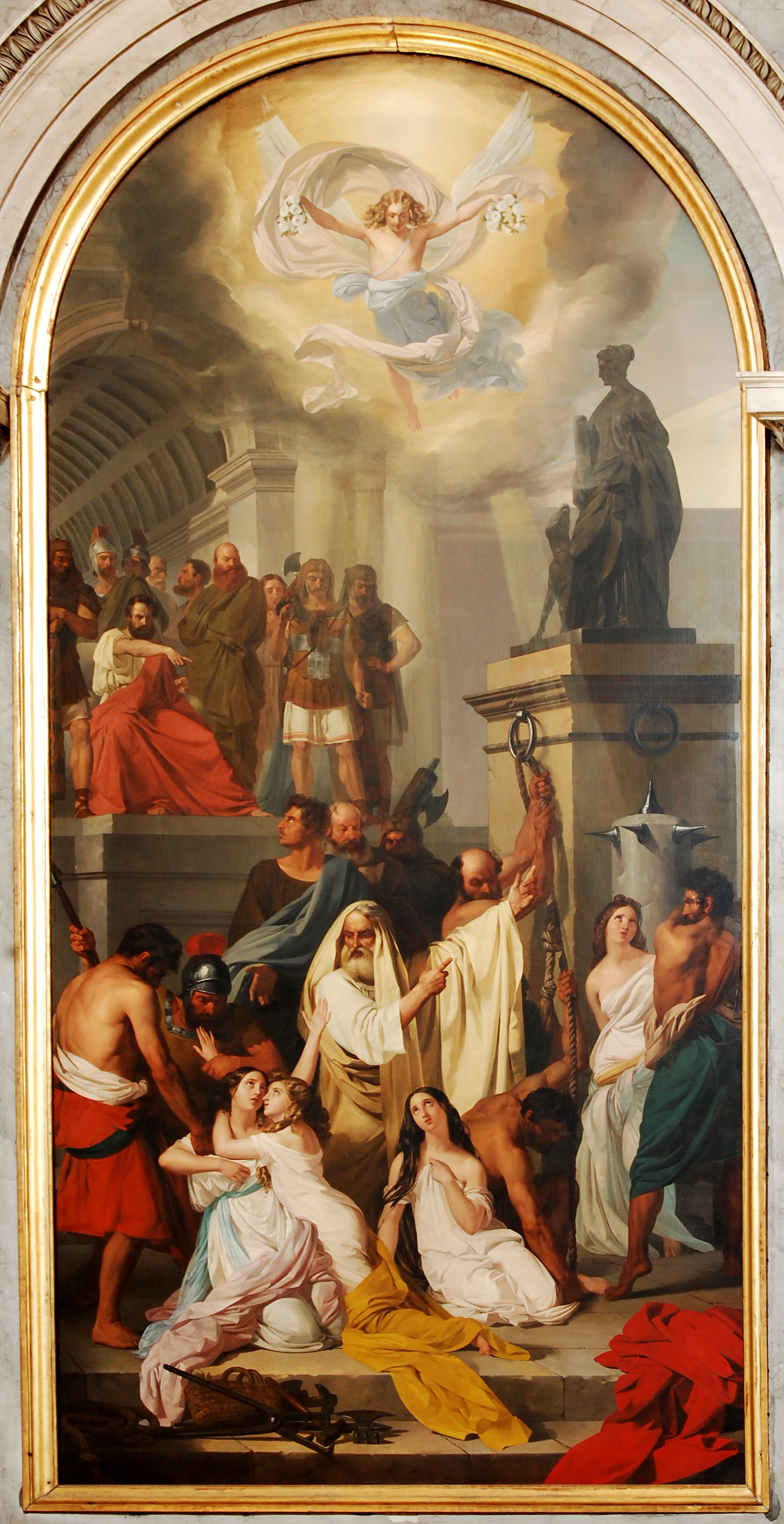 Sante Martiri Aquileiesi by Ludovico Lipparini (1800-1856). One of six large altar pieces in the Sant'Antonio Taumaturgo church in Trieste, Italy.